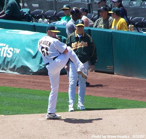 Dallas Braden warms up under the watchful eye of pitching coach Curt Young. 07:33, 27 September 2007 . . Gimpy56 . . 496×471 (83 KB)